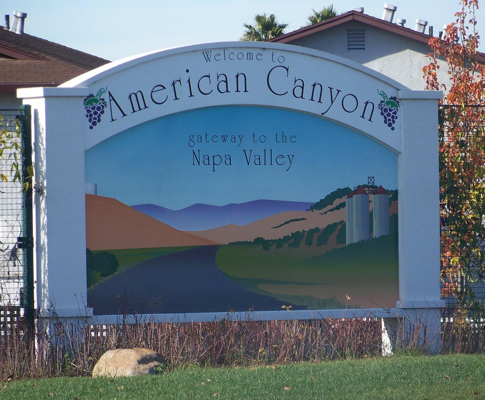 American Canyon, CA is called "The Gateway to the Napa Valley". This sign is located at the intersection of Flosden Rd. and American Canyon Rd.